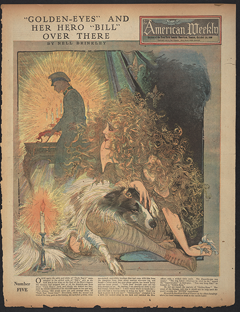 CGA_10, Thu Jan 17, 2008, 2:38:42 PM, 8C, 10378x12926, (238+359), 133%, Repro 1.8 v2, 1/60 s, R86.3, G74.6, B84.8